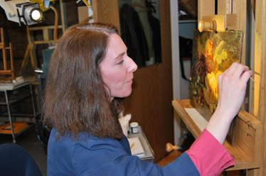 The Walters’ painting "Still Life with Fruit" was badly blackened and lacked a frame. It has now been cleaned, reunited with its original frame and will be placed on view.